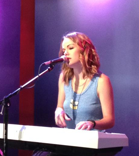 Image of Milwaukee musician Roxi Copland Performing the Great Day Mornign Show on KCWI TV on September 2015 in Des Moines, IA.